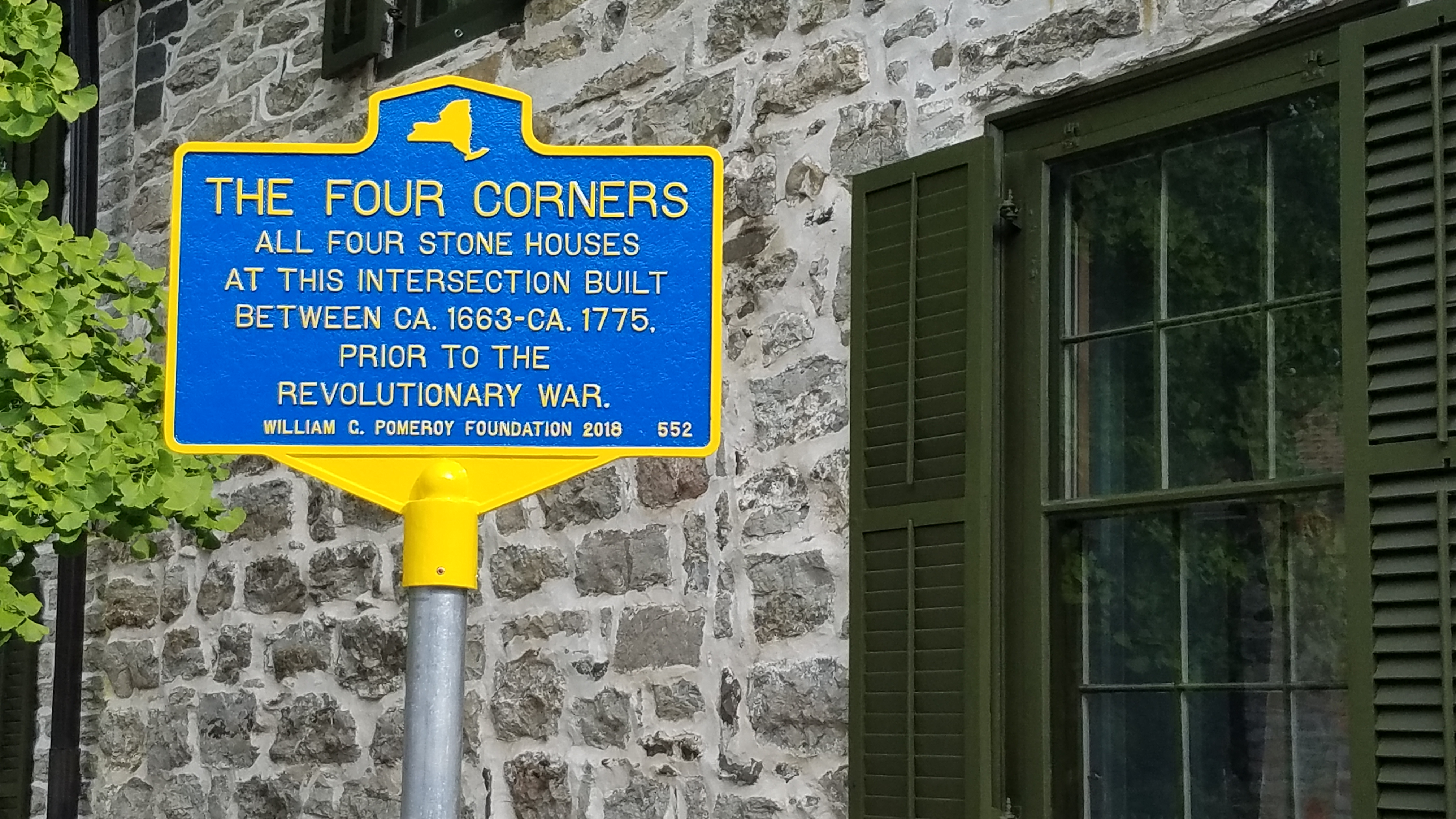 New York State historic marker for the four corners in Kingston, New York.